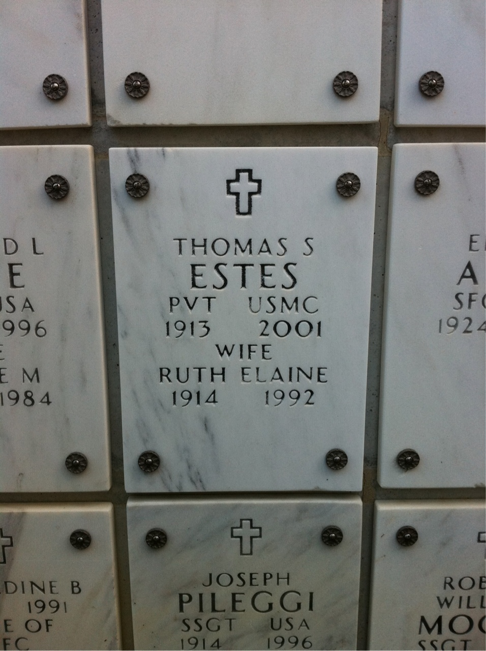 Grave of Thomas S. Estes at Arlington National Cemetery